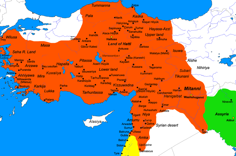 Map of the Hittite kingdoms en the 14th century BC